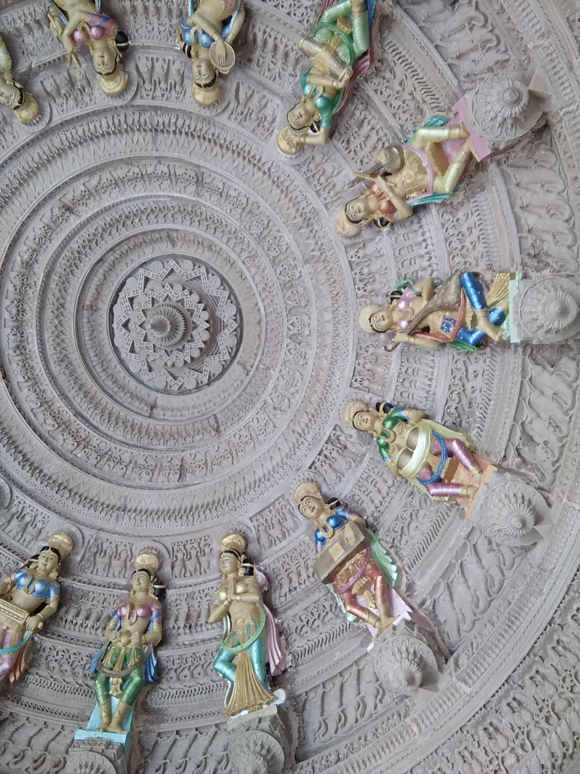 Carving in a Jain Temple